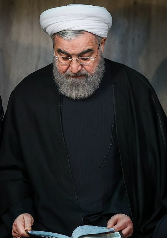 Farewell ceremony of former Iranian president, Akbar Hashemi Rafsanjani